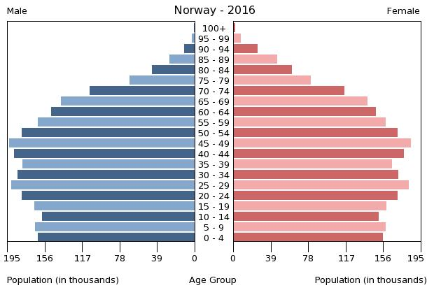 A population pyramid illustrates the age and sex structure of a country's population and may provide insights about political and social stability, as well as economic development. The population is distributed along the horizontal axis, with males shown on the left and females on the right. The male and female populations are broken down into 5-year age groups represented as horizontal bars along the vertical axis, with the youngest age groups at the bottom and the oldest at the top. The shape of the population pyramid gradually evolves over time based on fertility, mortality, and international migration trends.